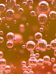 Photo by Gaetan Lee